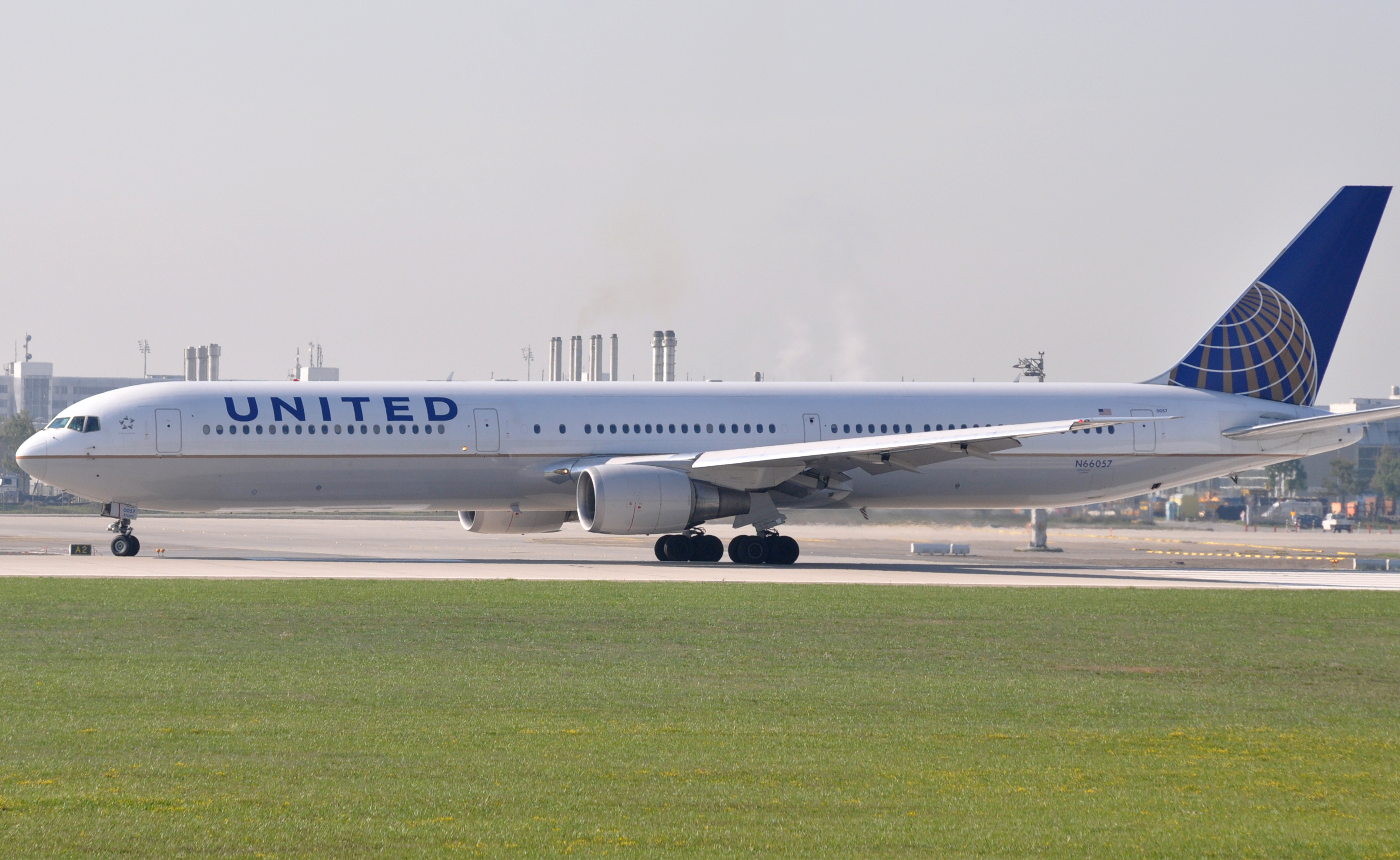 United Airlines Boeing 767-400 prior to take-off at Munich Airport